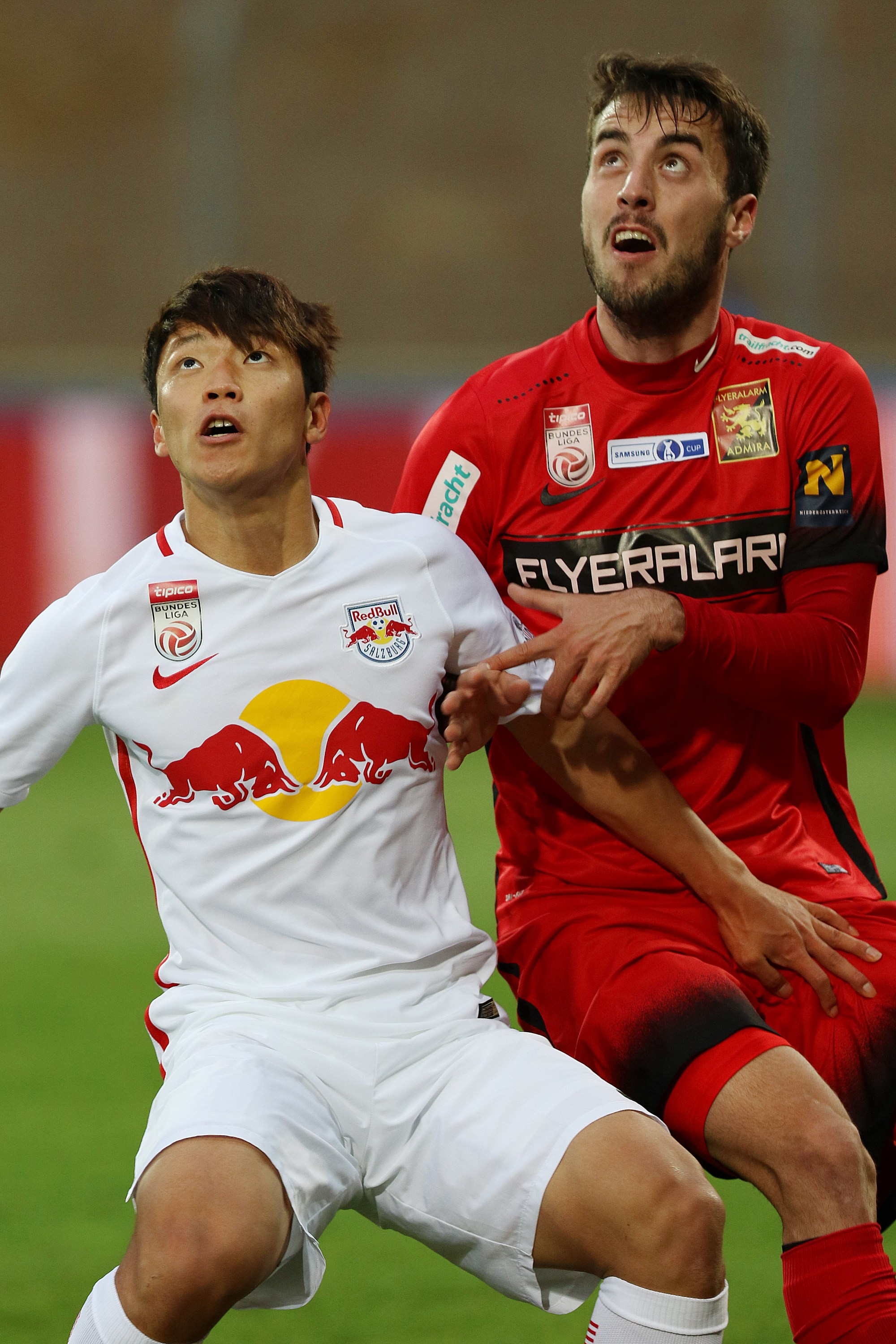 2016–17 Austrian Cup: FC Admira Wacker Mödling (red shirts) vs. FC Red Bull Salzburg (white shirts) at 26. April 2017 in the BSFZ-Arena in Maria Enzersdorf 0:5 (0:2) – The photo shows Hee-Chan Hwang (left) and Fabio Strauss (right)